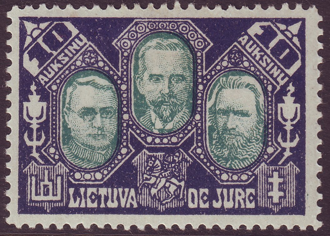 Stamp of Lithuania, issued 1922-09-27, with portraits of Justinas Staugaitis, Antanas Smetona and Stasys Šilingas. Designed by Adomas Varnas. Michel 137